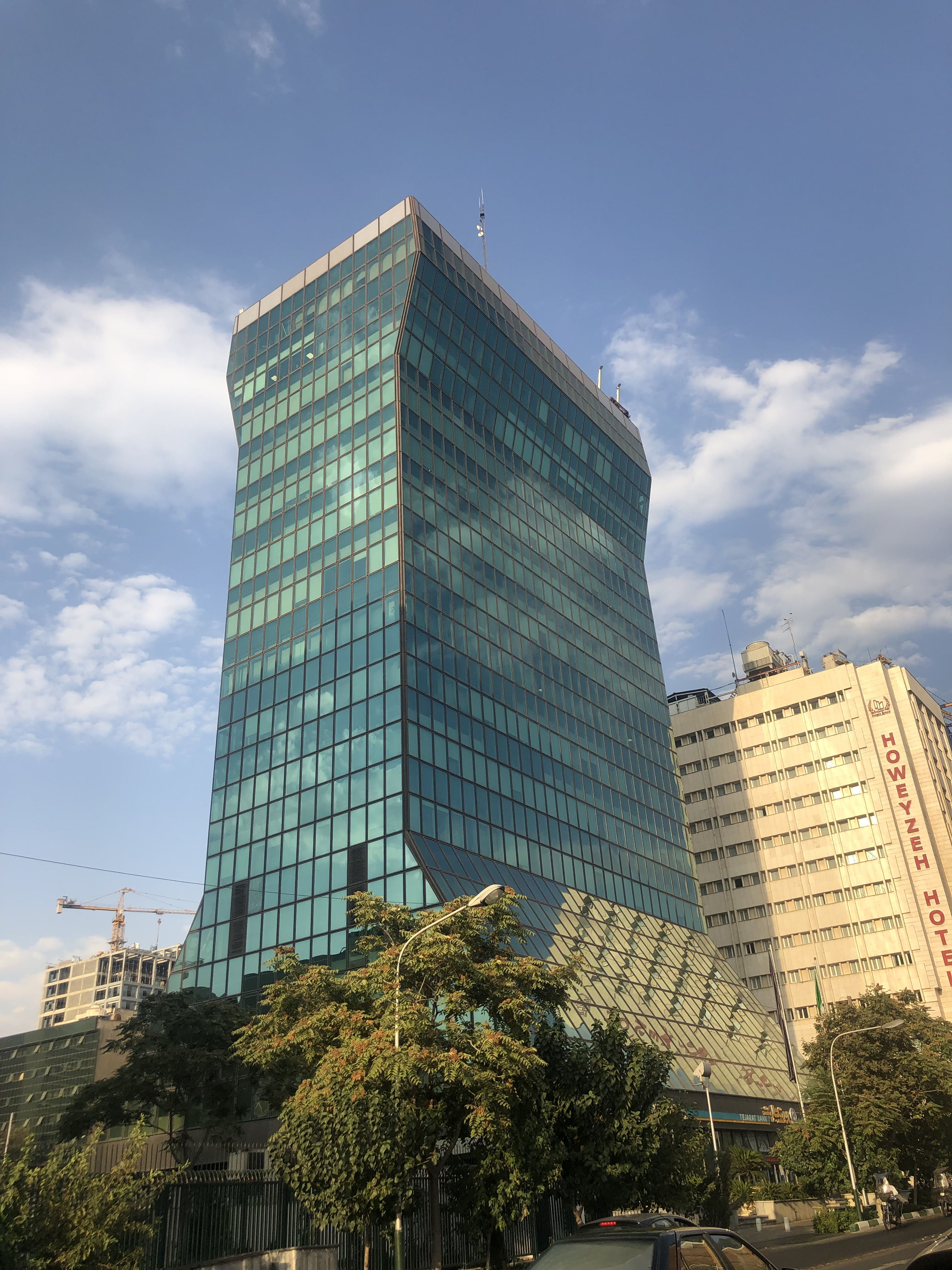 Tejarat Bank Central Building